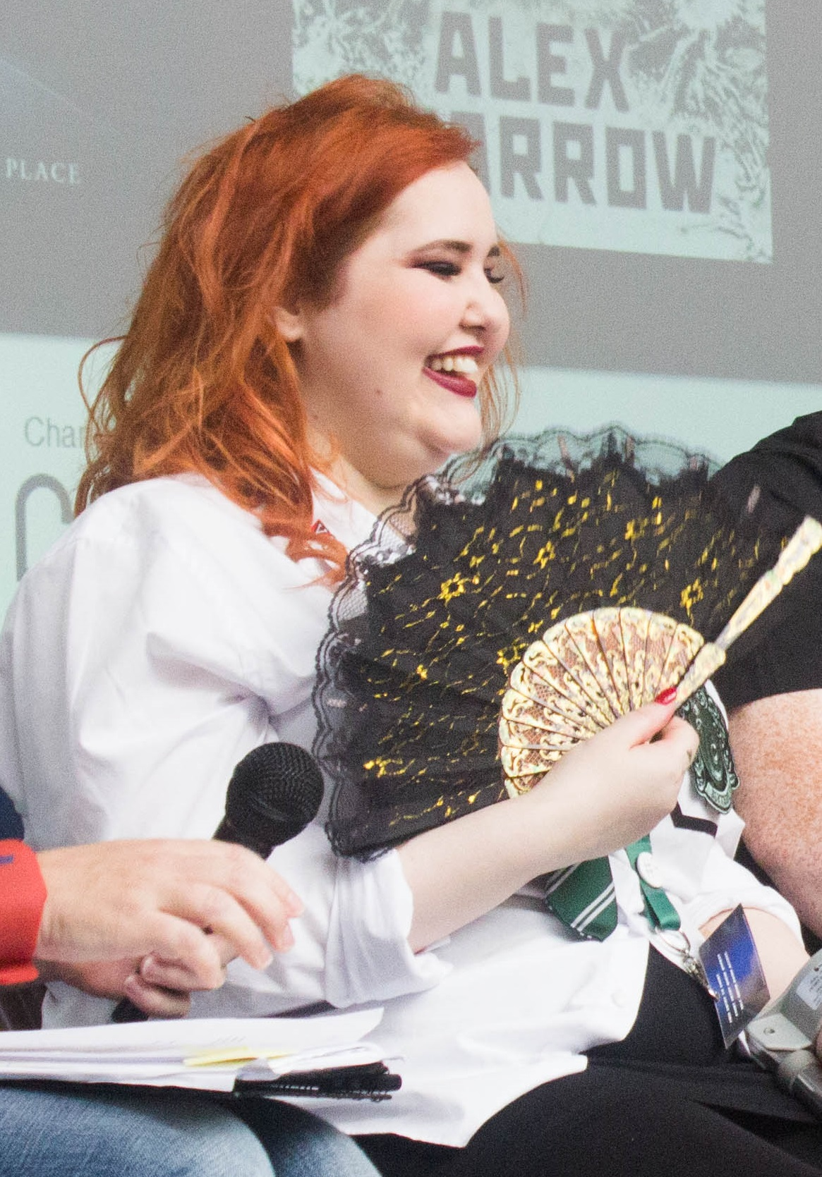 Dawn Kurtagich cropped from another photo